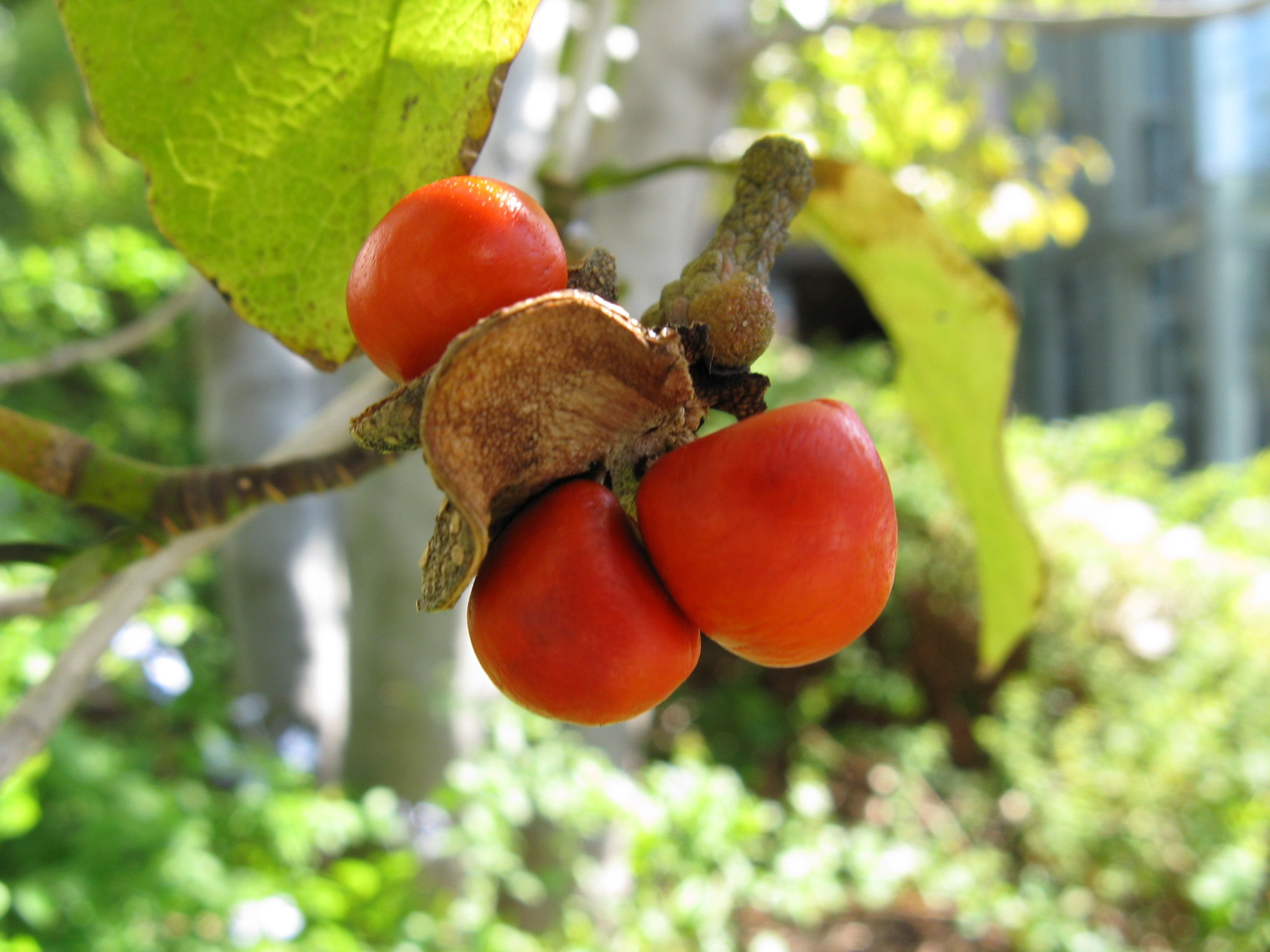 Magnolia kobus, Osaka, Japan